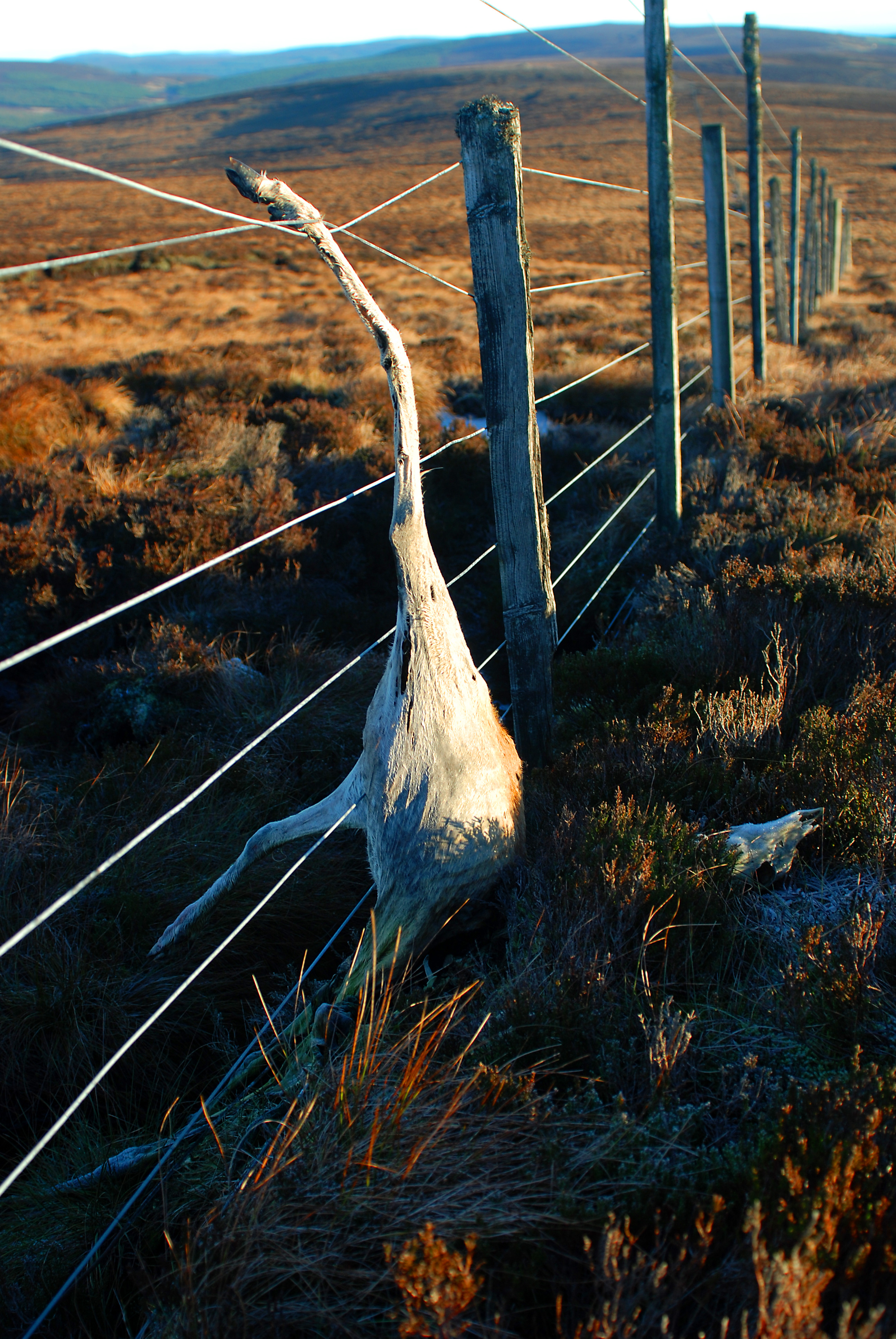 Roe_Deer_fixed_dead_in_fence